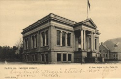 Paris Carnegie Public Library in Paris, Illinois. Image published as post card around 1904.